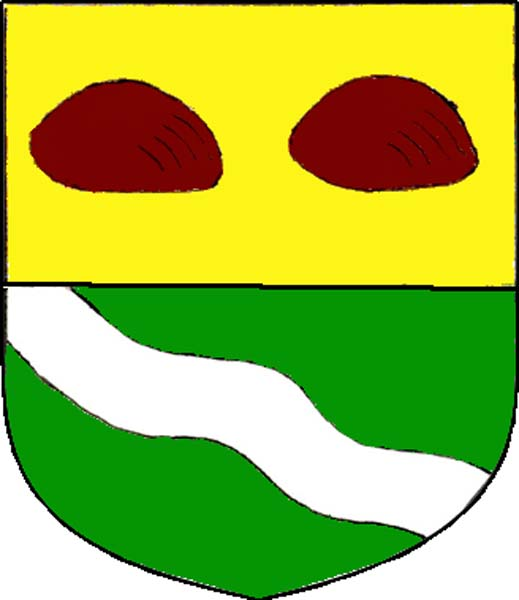 Coat of amrs of Chleby , District Nymburk, Czech Republic